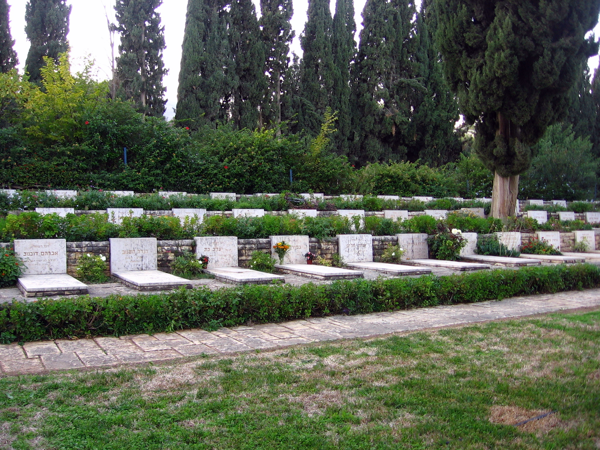 Graves of HaShomer members, Tel-Hai